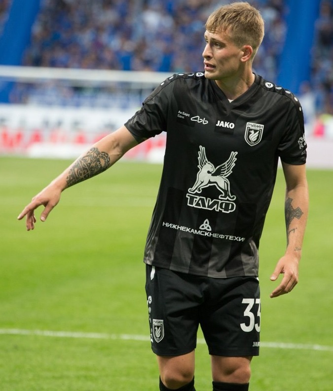 Oleh Danchenko with FC Rubin Kazan in a game against FC Dynamo Moscow.